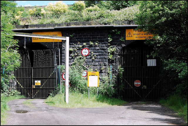 The Standedge tunnels